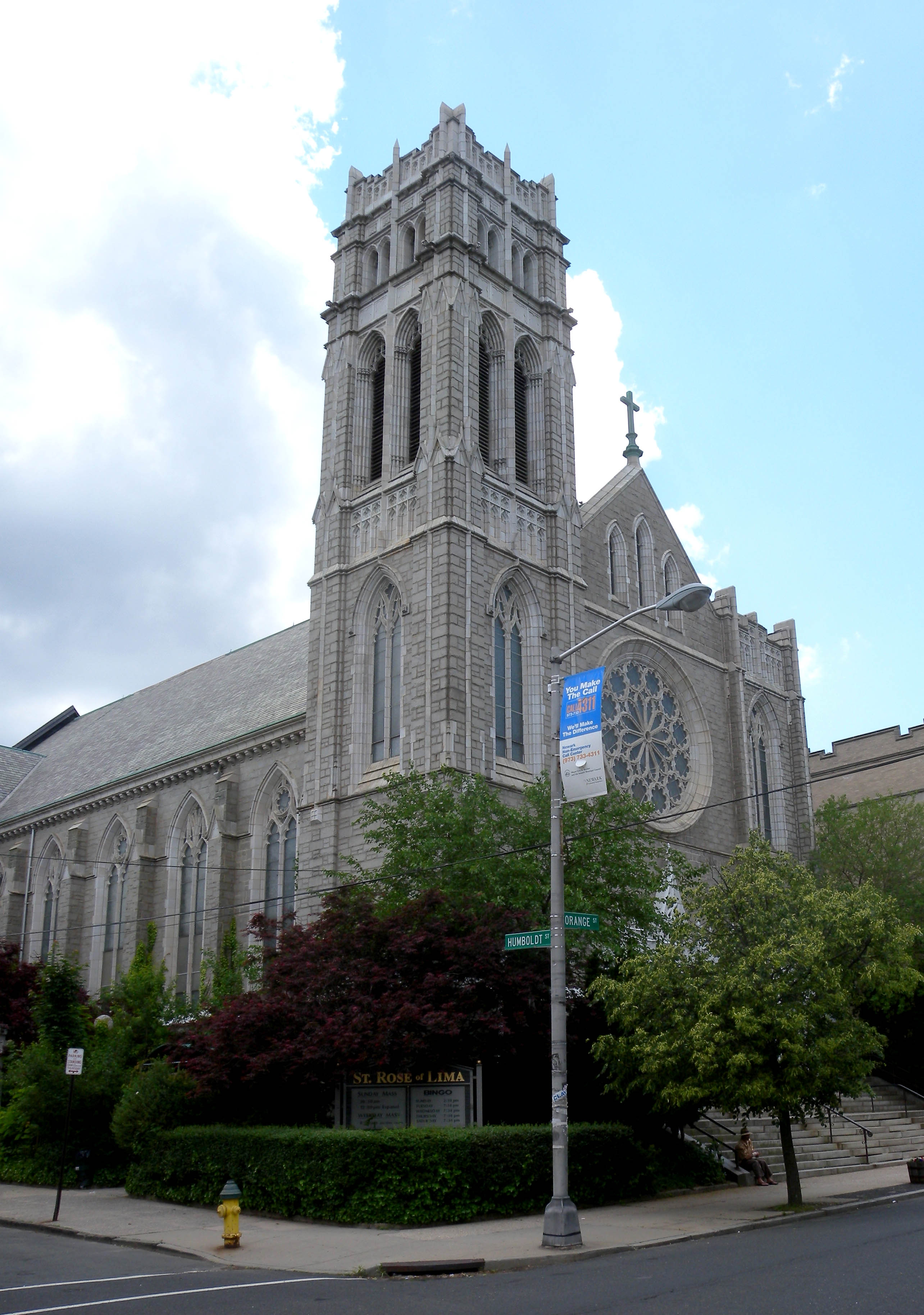 Looking west across Orange and Humboldt Streets at St Rose Of Lima Catholic Church in Roseville, Newark, New Jersey on a mostly sunny midday.